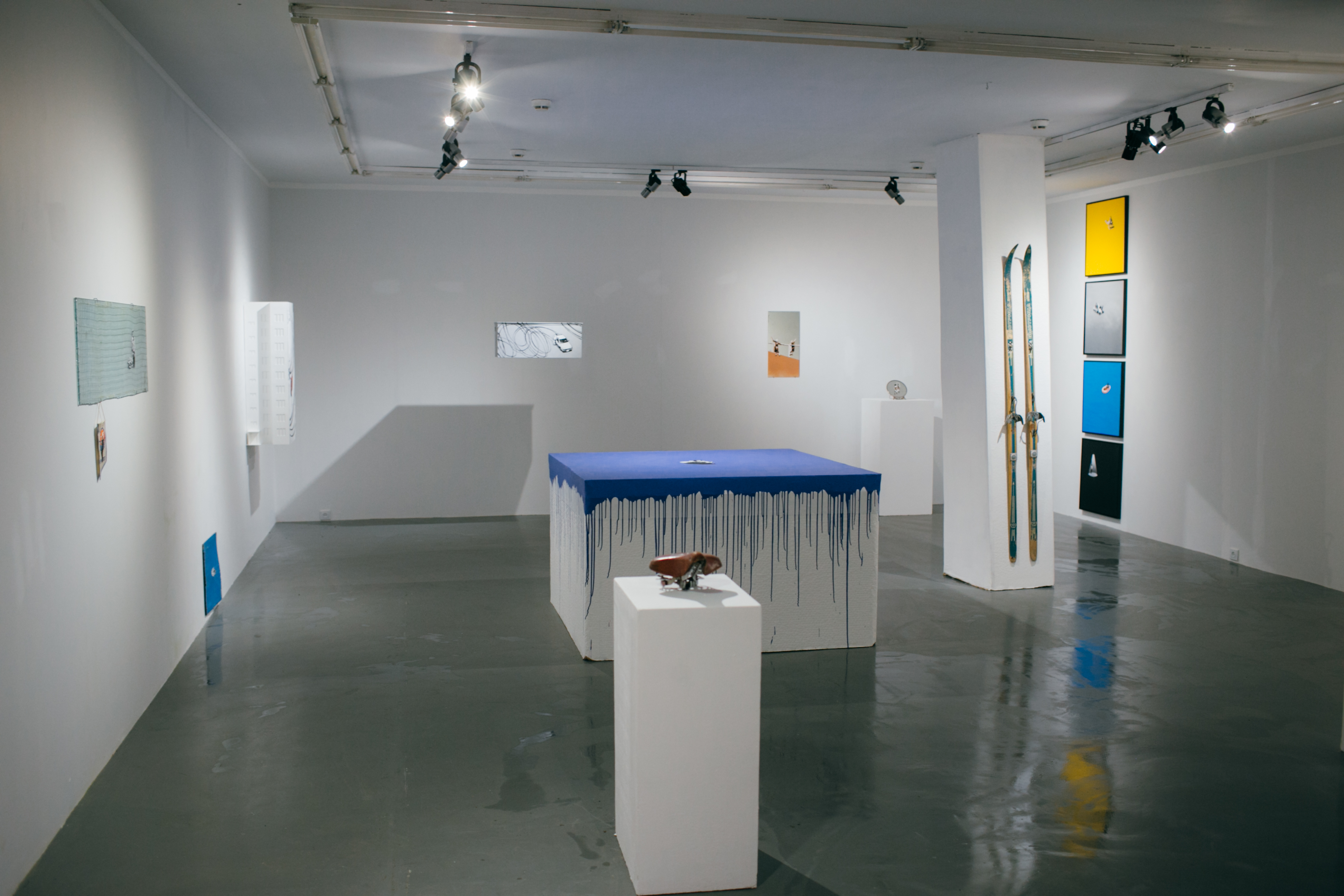 11 12GALLERY Slava Ptrk